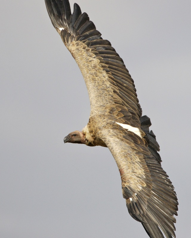 White-backed Vulture Gyps africanus Masai Mara, Kenya August 29, 2008 690V1088